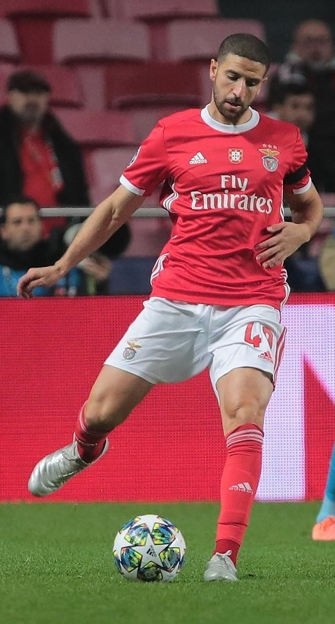 Benfica-Zenit UEFA Champions League 2019/20 (10/12/2019)